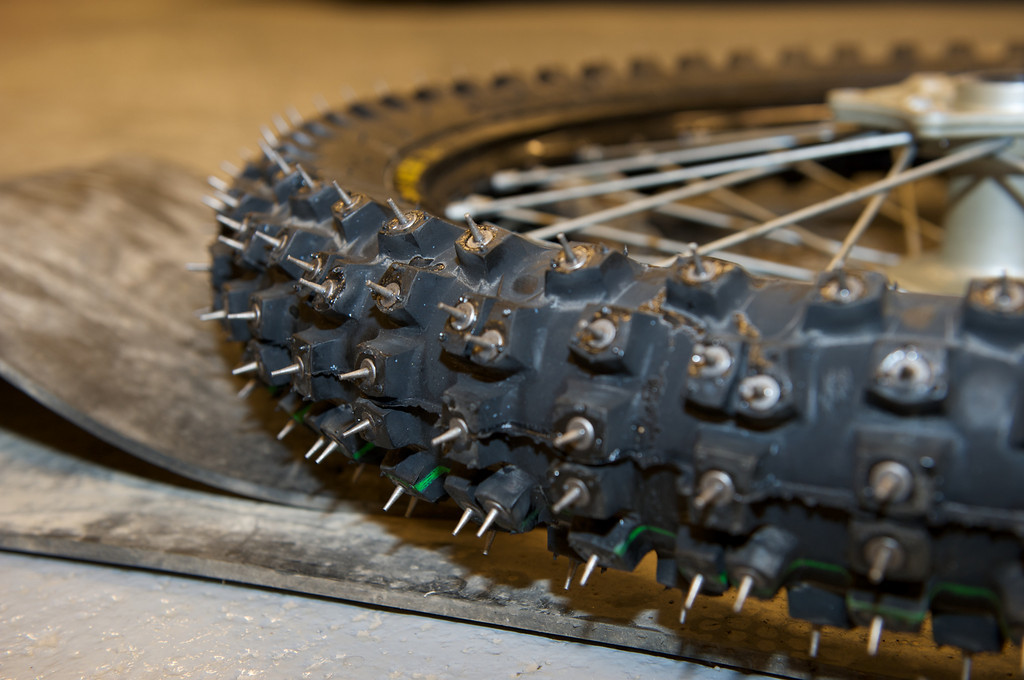 Finndubb